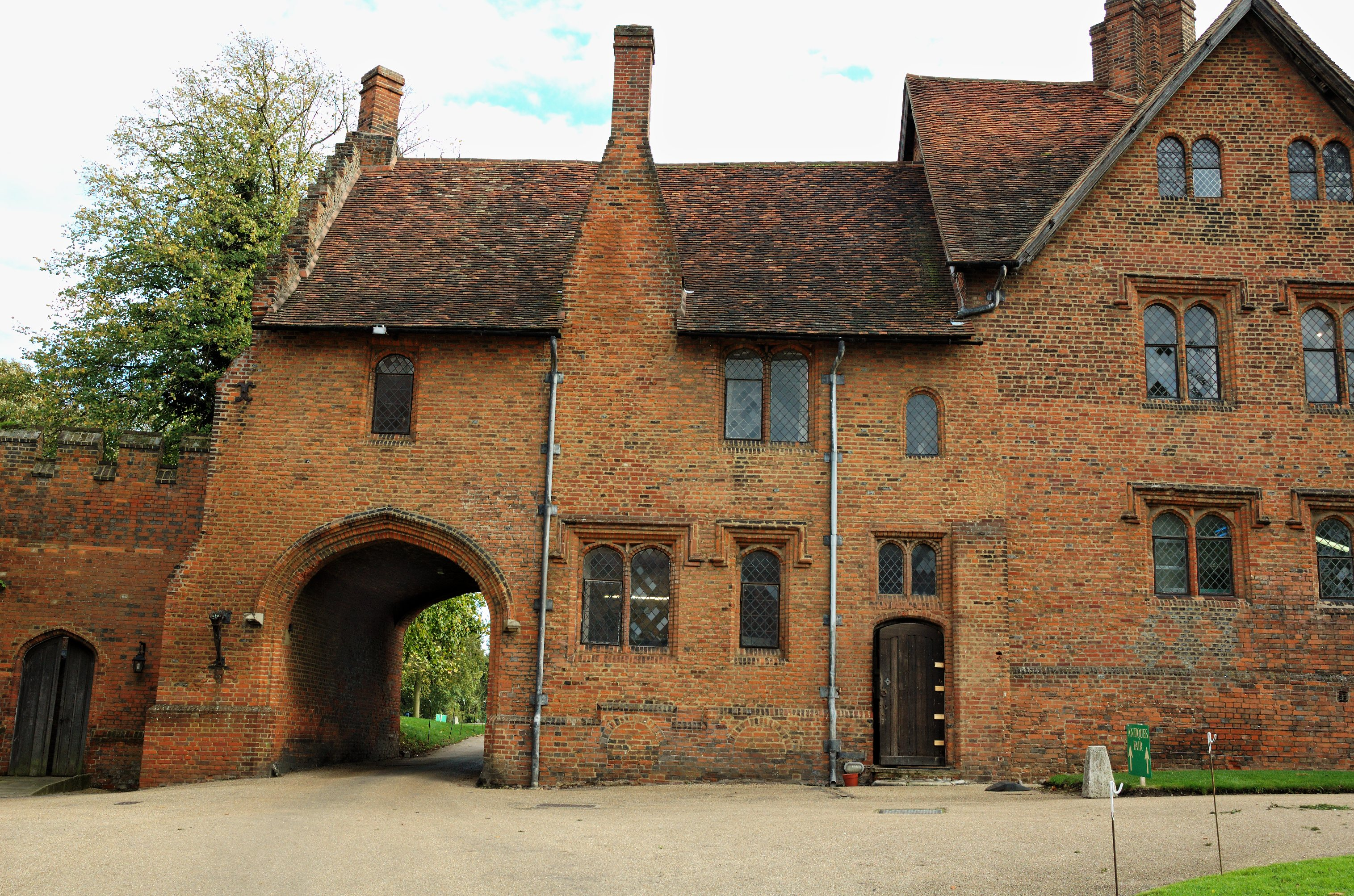 The Old Palace, Hatfield.